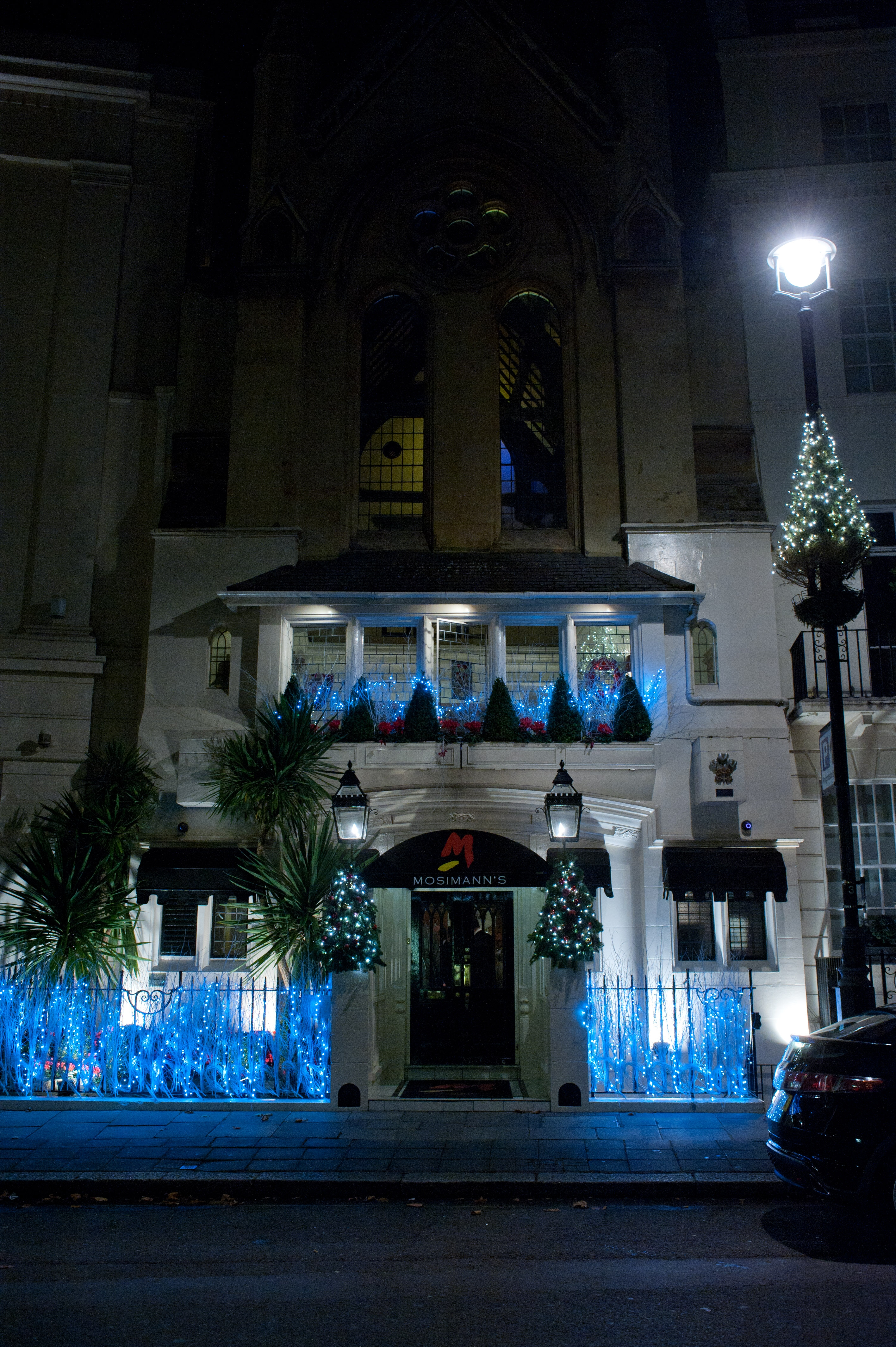 Mosimann's Club, a private dining club in Belgravia, London founded by Anton Mosimann.